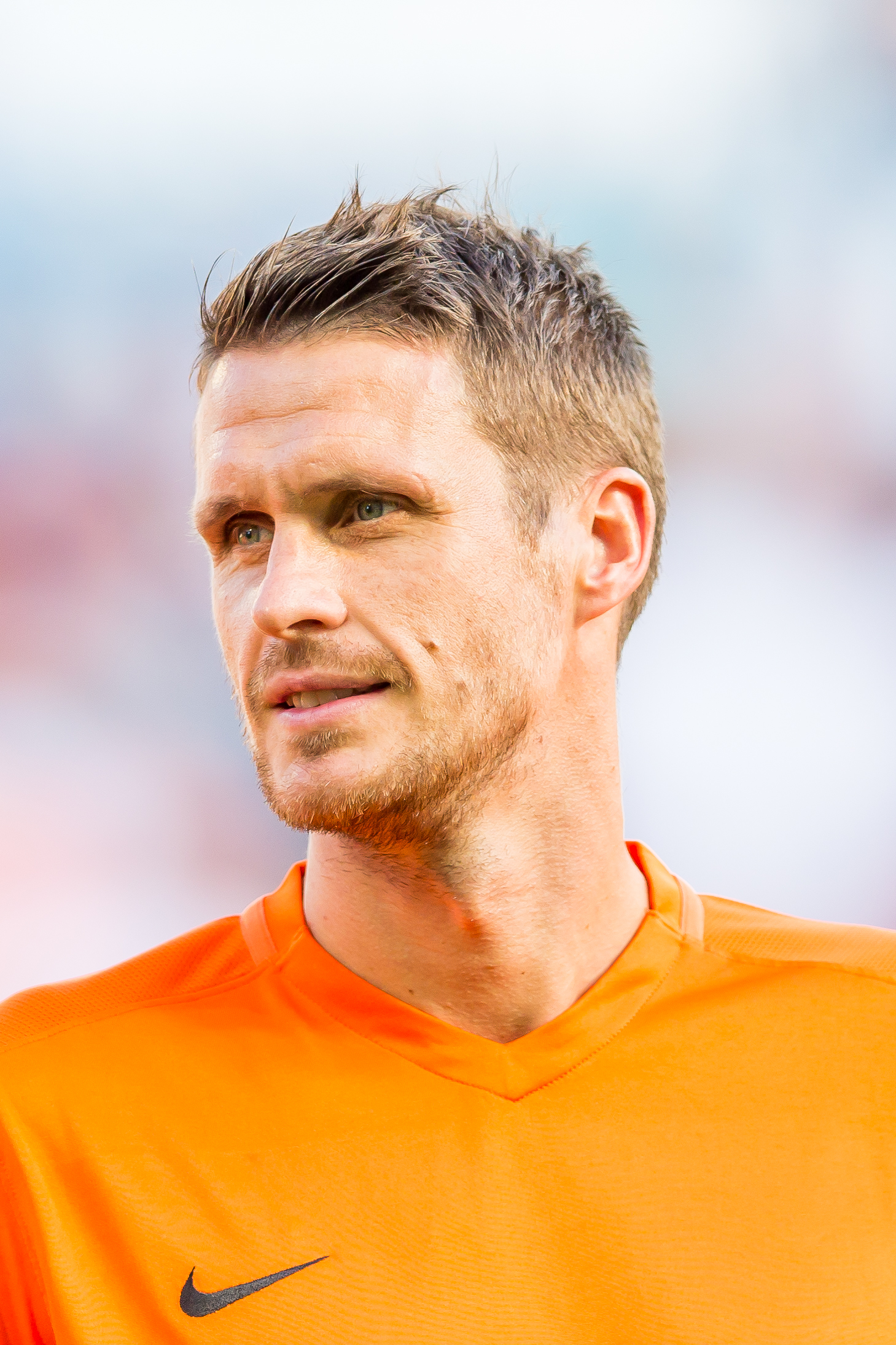 during football match between Nowitzki All Stars and Nazionale Piloti in honor of Michael Schumacher at Opel Arena, Mainz, Rheinland Pfalz, Germany on 2016-07-27, Photo: Sven Mandel